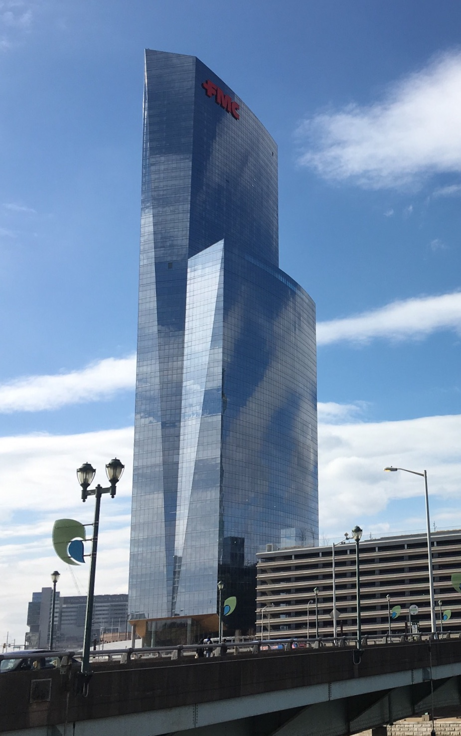 FMC Tower, Adapted from